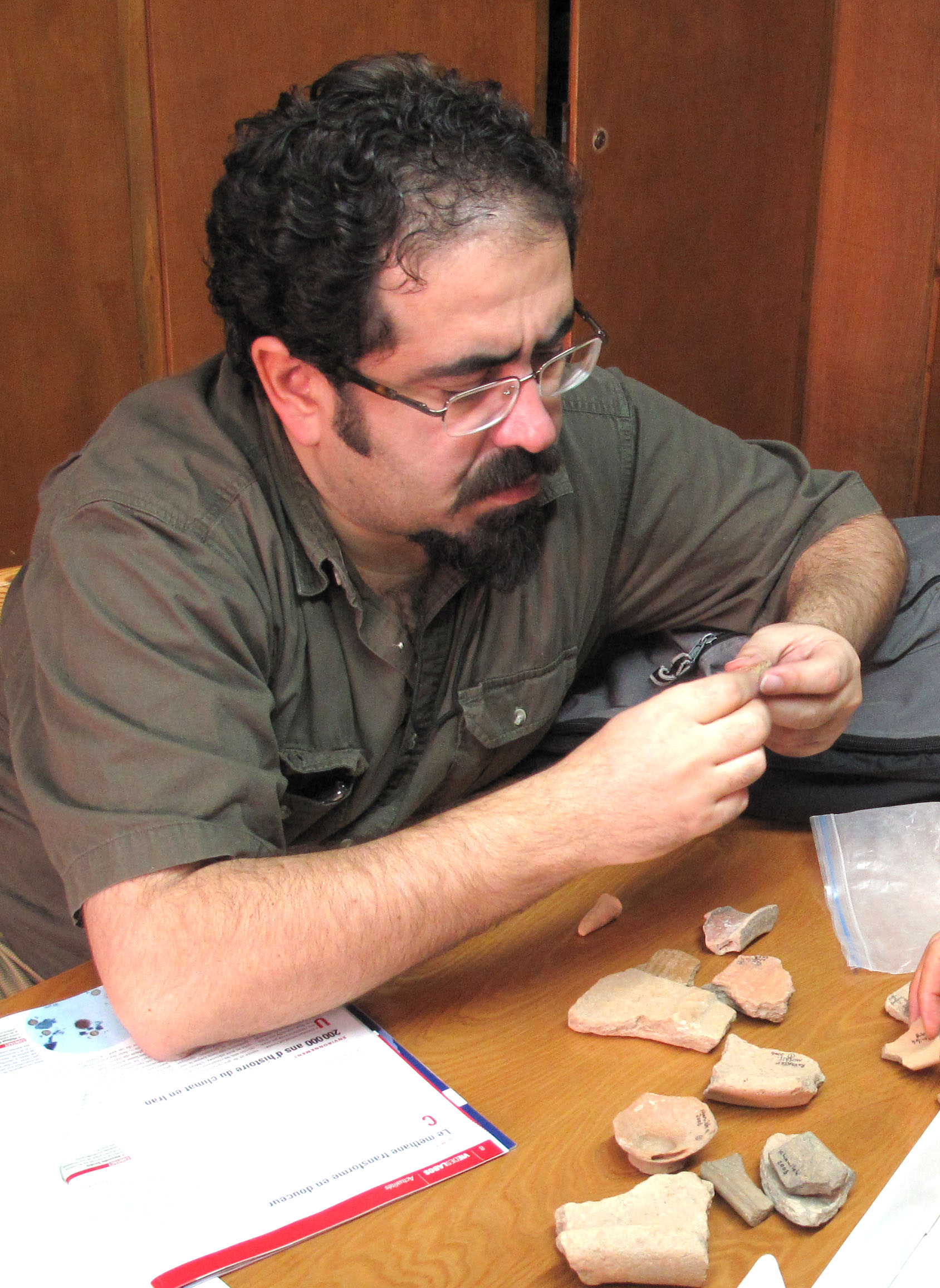 Kamyar Abdi is an Iranian archaeologist. He received his M.A. in Near Eastern Languages and Civilizations, at University of Chicago (1997) and his Ph.D. from University of Michigan in Anthropology (2002). He has been an Assistant Professor in the Department of Anthropology, Dartmouth College since 2002.He teachs at Beheshti University now.